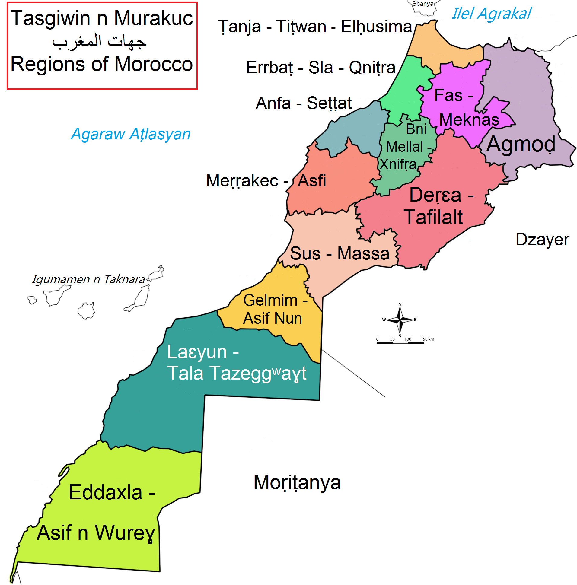 The administrative regions of Morocco (an African country). The names of the administrative regions are written in the Berber language. Tasgiwin tideblanin n Murakuc (ict tmurt Tafiqant). Izewlan n tesgiwin tideblanin ttwarin s tutlayt Tamaziɣt.